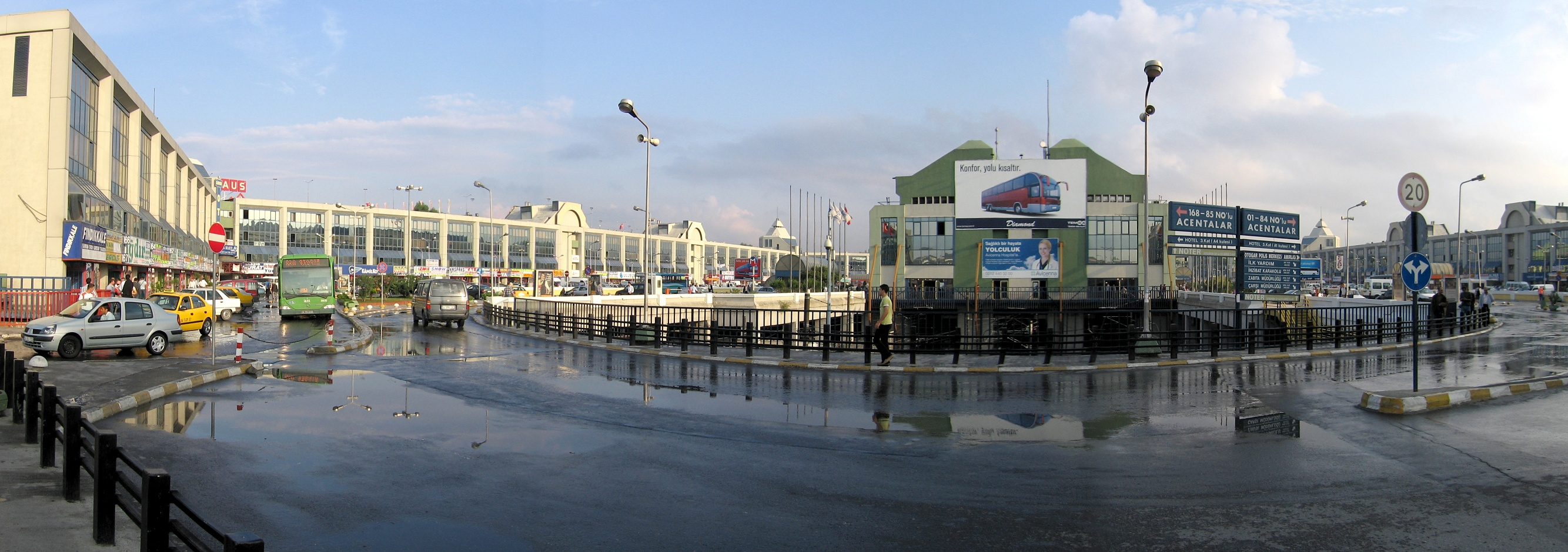 Main bus station Otogar, Istanbul, Turkey